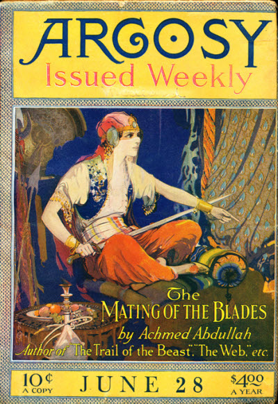 Cover of Argosy, June 28, 1919.